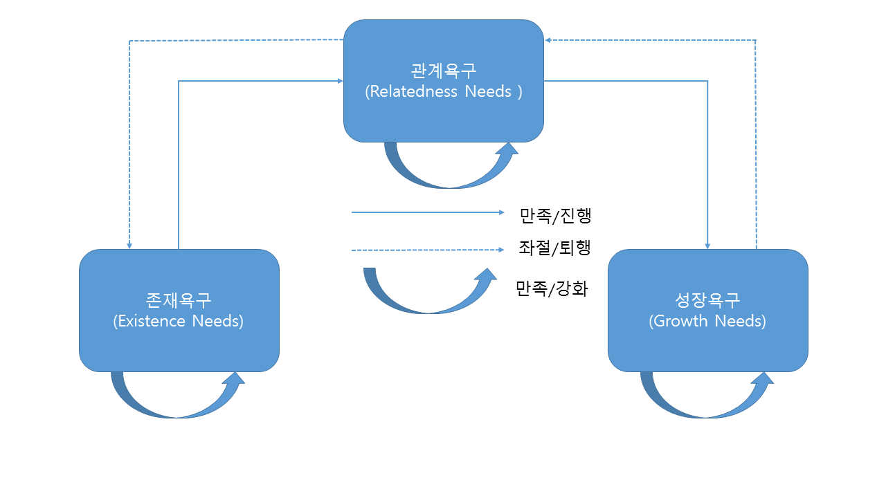 ERG Theory description map